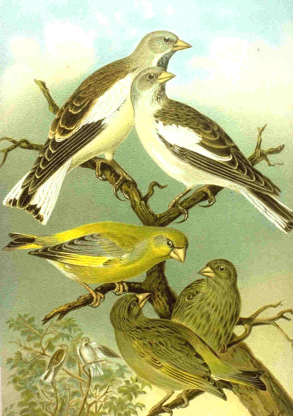 Carduelis chloris (bottom) and Montifringilla nivalis (top), from Naumann, Naturgeschichte der Vögel Mitteleuropas, 1905.